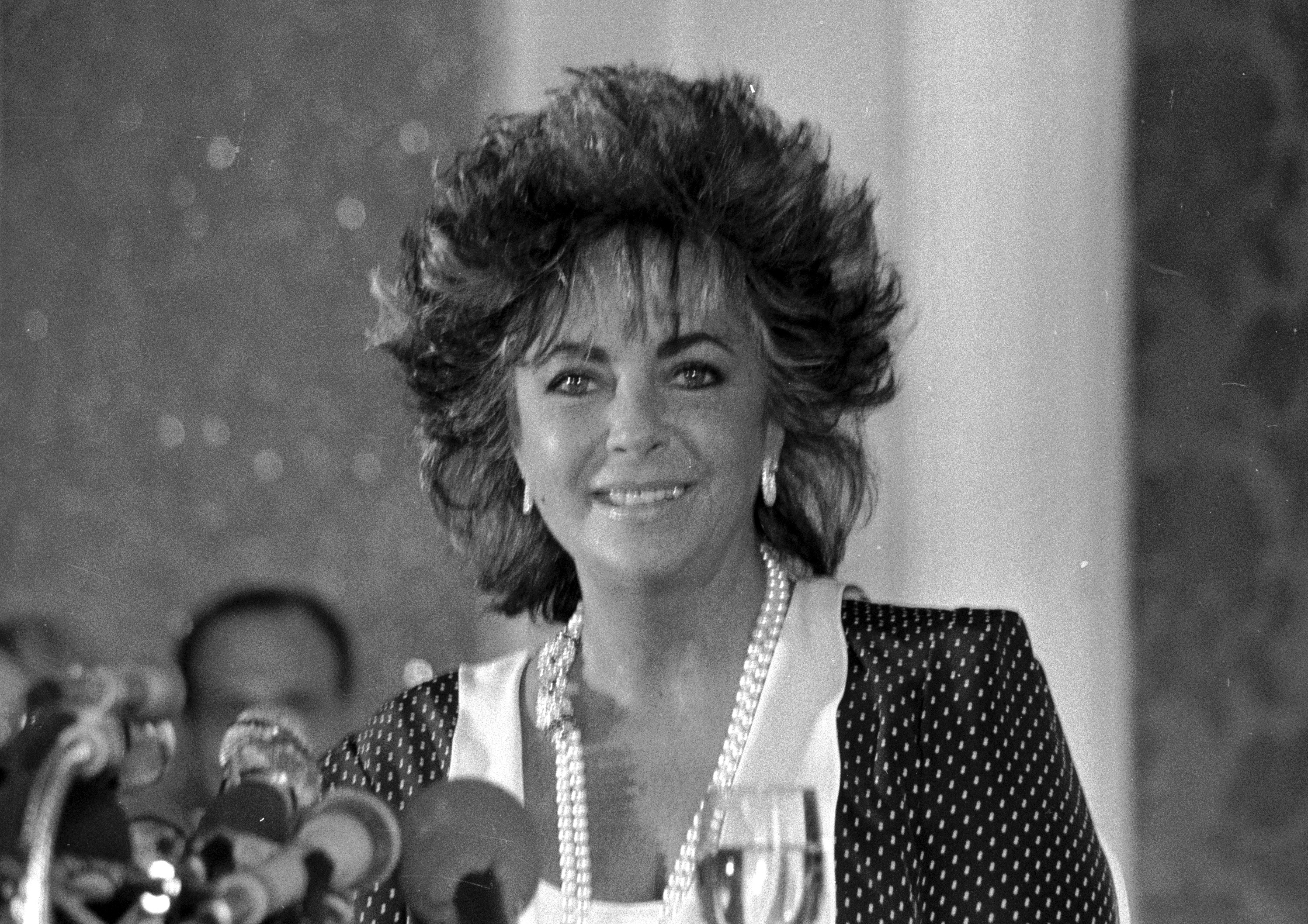 The American actress Elizabeth Taylor at American Film Festival of Deauville (Normandy, France) in September 1985.